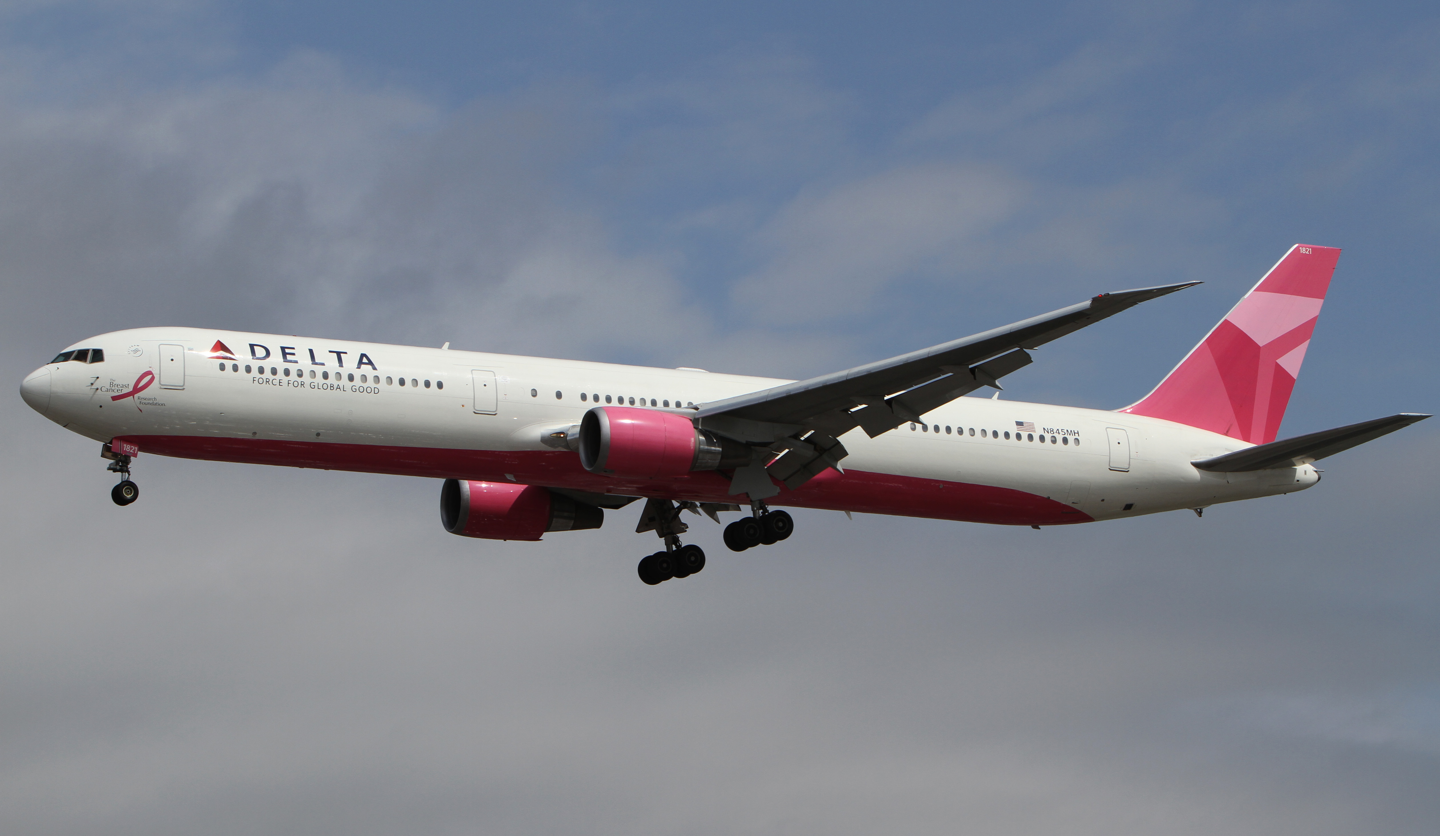 Delta N845MH seen arriving at Heathrow in a special pink scheme for breast cancer.